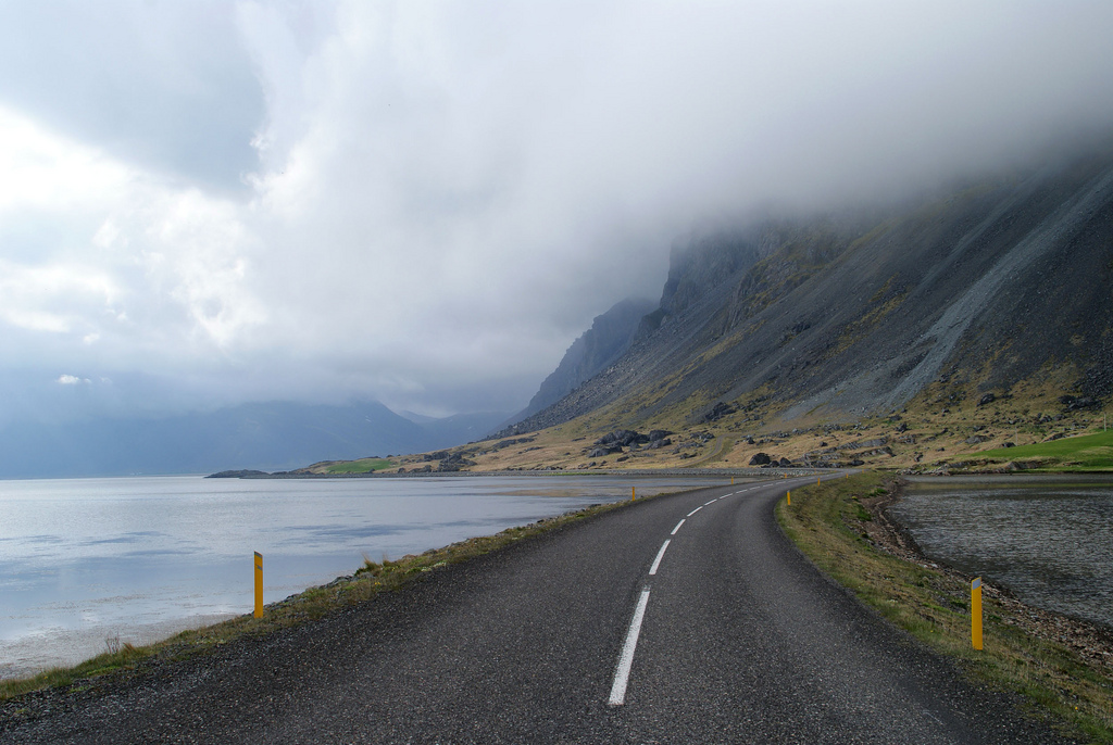 Road in Iceland